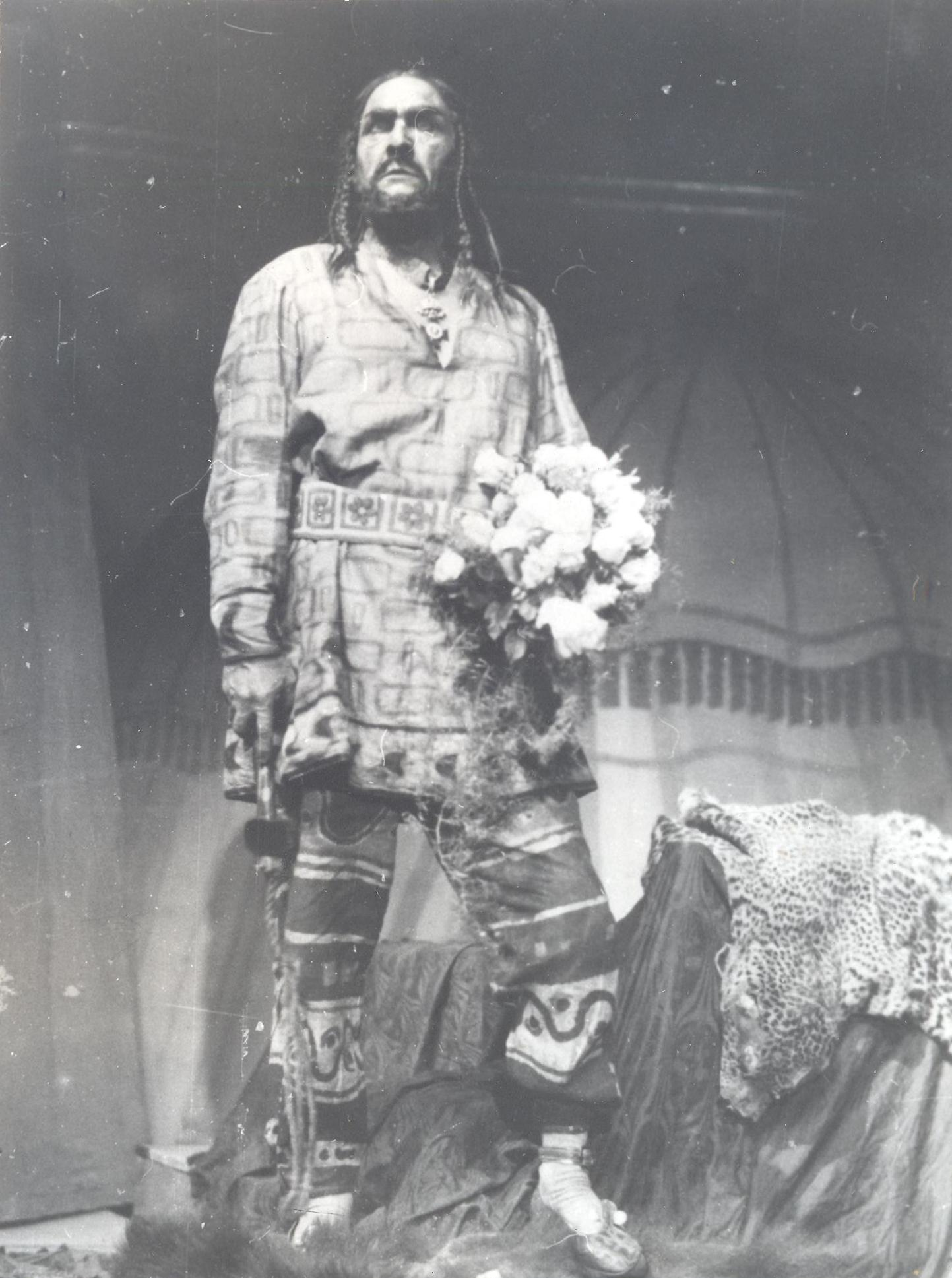 Feodor Chaliapin in Bulgaria, 1934.